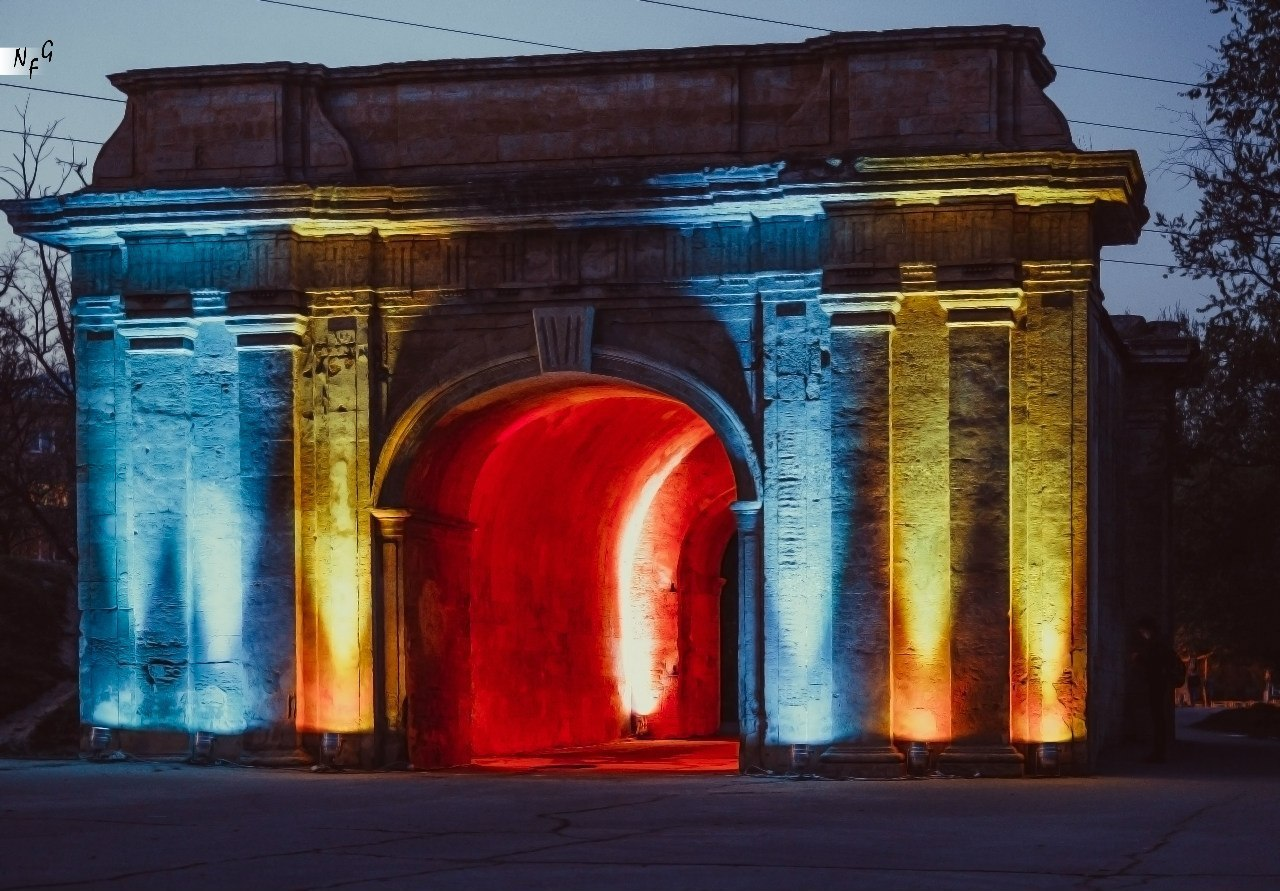 The North Gates of the Castle of Kherson